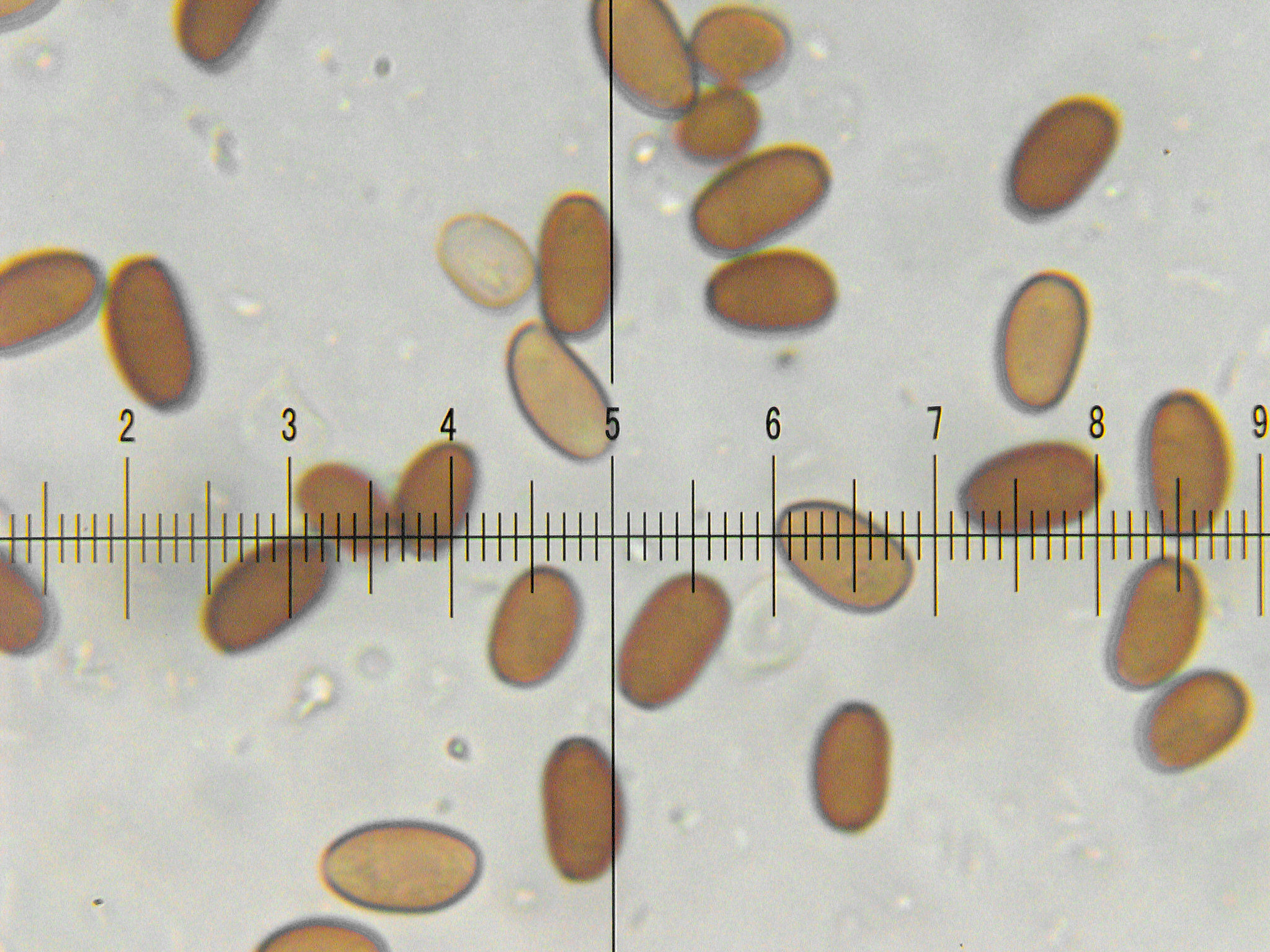 Psathyrella candolleana (Fr.) Maire Image location: Davis, California, USA Growing on a lawn from where a stump was removed and left lots of woody debris in the ground. The spore are smooth with a germ pore and turn a dull cocoa brown in KOH, 30 were measured and the average size is 7.62×4.67 and the avg Q is 1.71. Spore measurements taken are (In μ): LxW 7×4 7×4 7×4 7×4 7×4 7×5 8×4 8×4 8×4.5 8×4.5 8×4.5 8×4.5 8×4.5 8×4.5 8×5 8×5 8×5 8×5 8×5 8×5 8×5 8×5 8×5 8×5 8×5 8.5×5 9×5 9×5 9×5 9×5 Recognized by sight Based on microscopic features Spores from gill 1000x Mounted in H2O Divisions are 1μ For more information about this, see the observation page at Mushroom Observer.